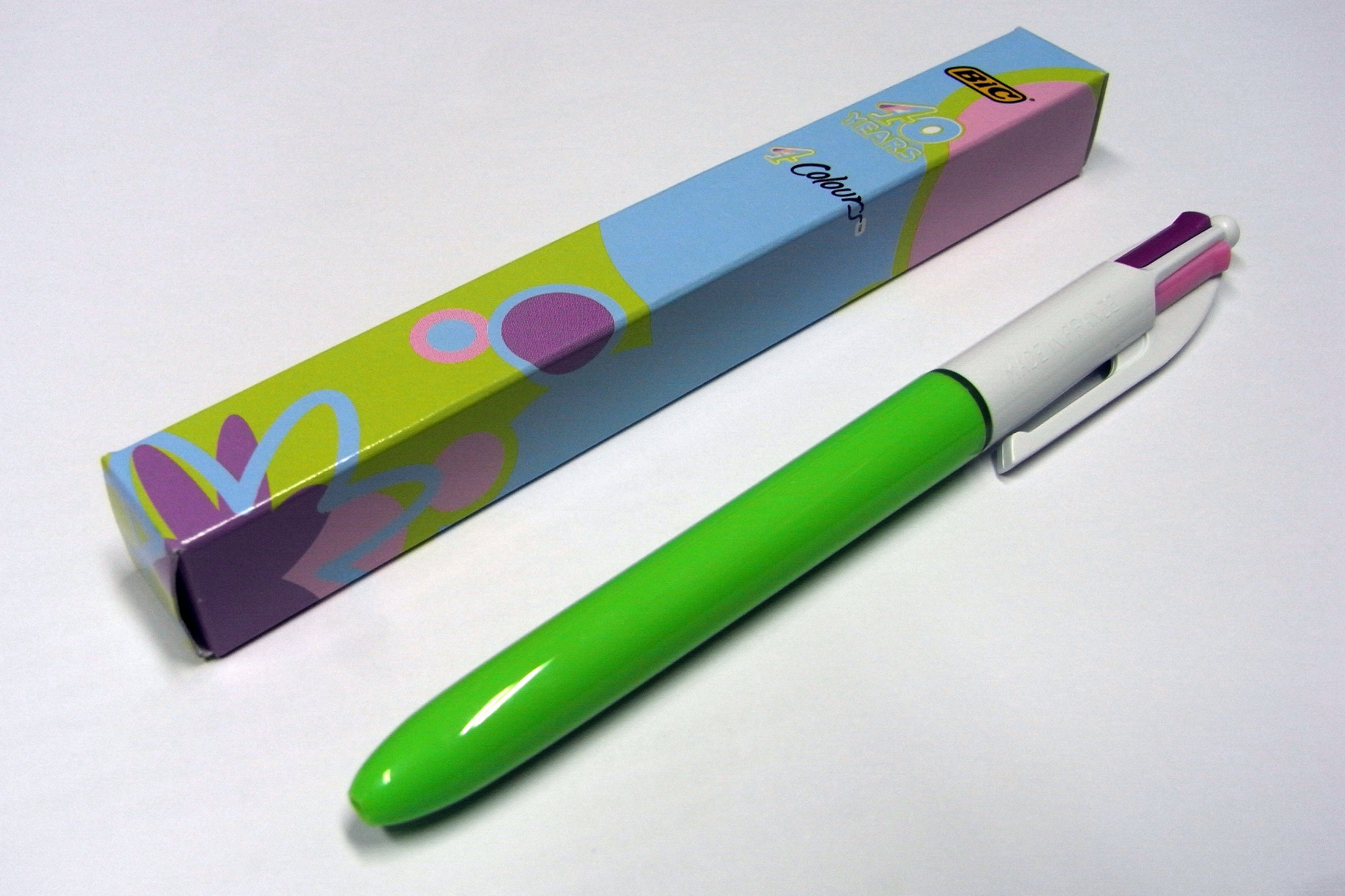 40th Anniversary Limited Edition 4 Colours BiC Ballpoint Pen